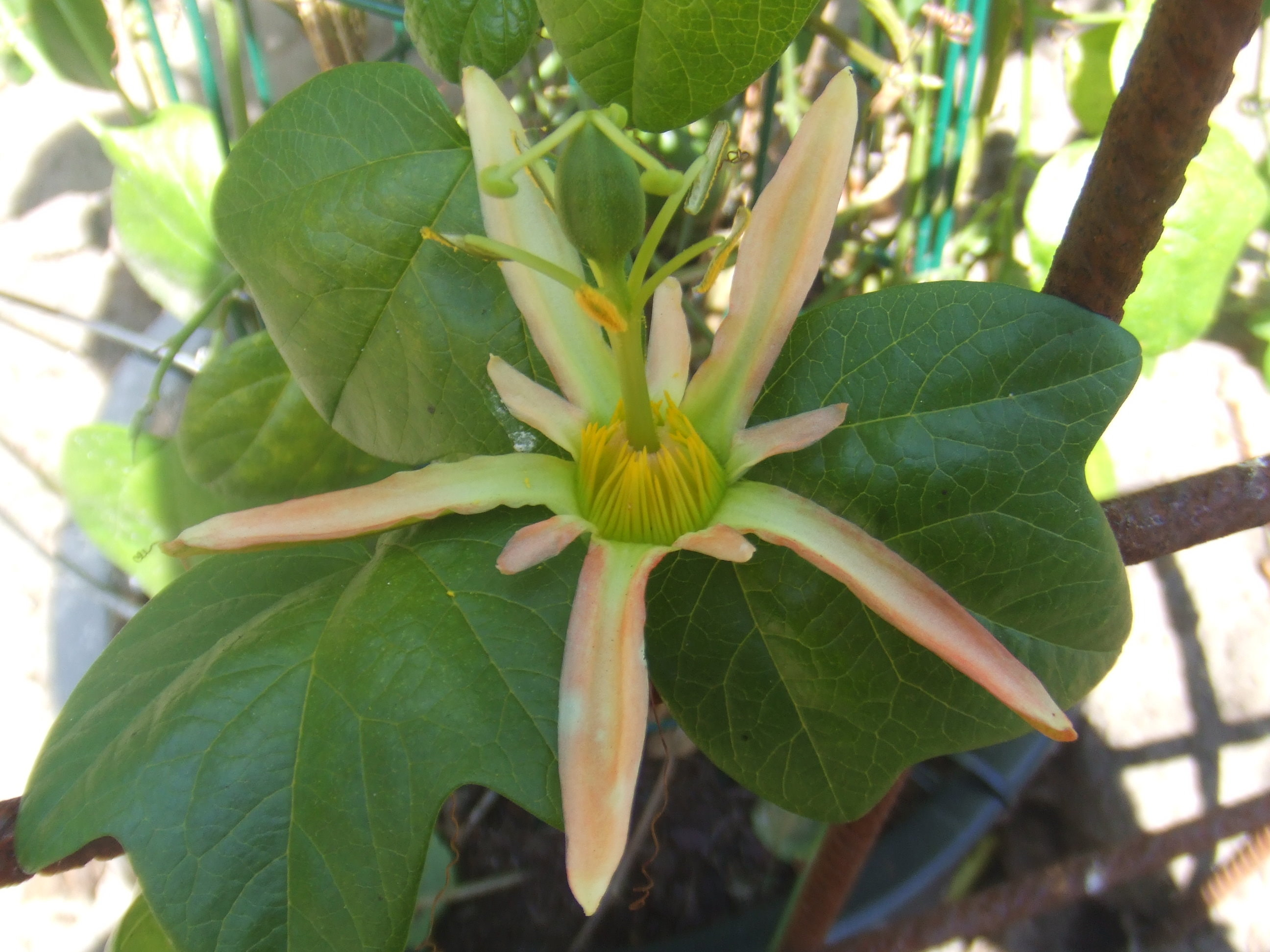 Passiflora herbertiana, picture taken at the Passiflorahoeve in Harskamp, The Netherlands